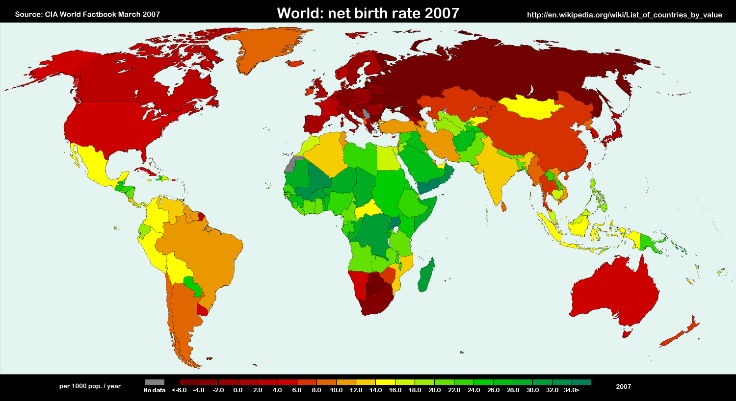 World net birth rate 2007. Figures taken from CIA World Factbook March 2007. World map colorized with custom colorizing script.